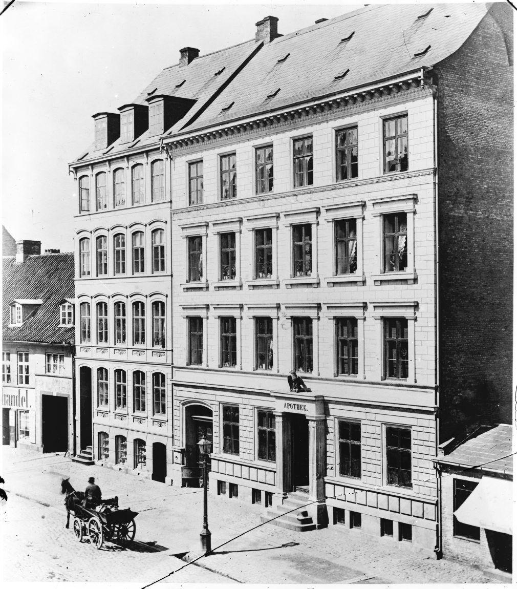 Vesterbro Pharmacy on Vesterogade in Copenhagen, Denmark.